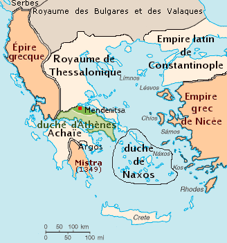 French map: Marquisate of Bodonitsa (Μαρκιωνία τῆς Βοδονίτσας)